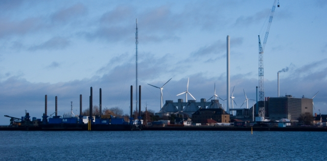 port of copenhagen